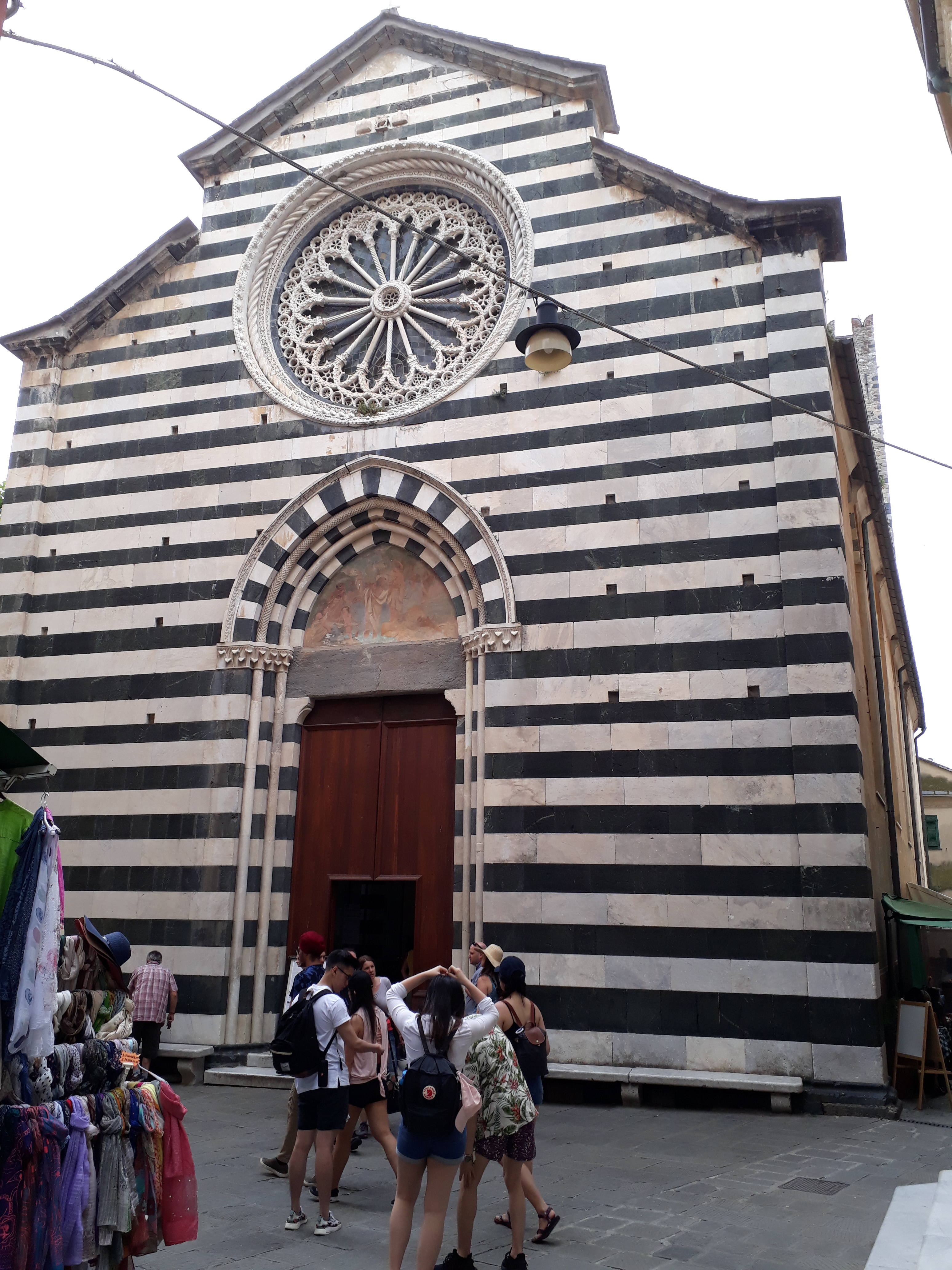 Church of Monterosso al Mare (Italy)